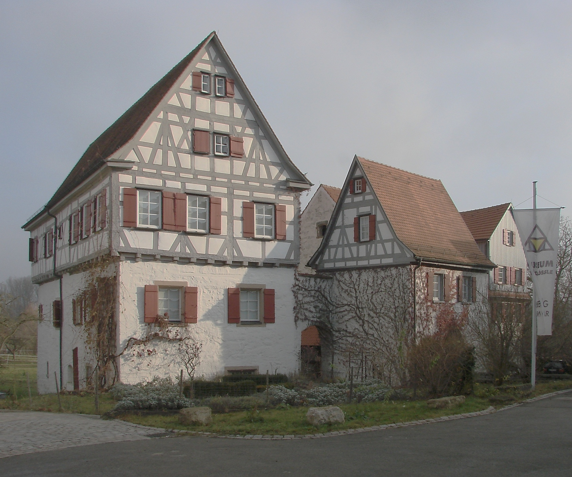 Freiberg am Neckar, Schlössle, part of the lower castle in the town part of Geisingen